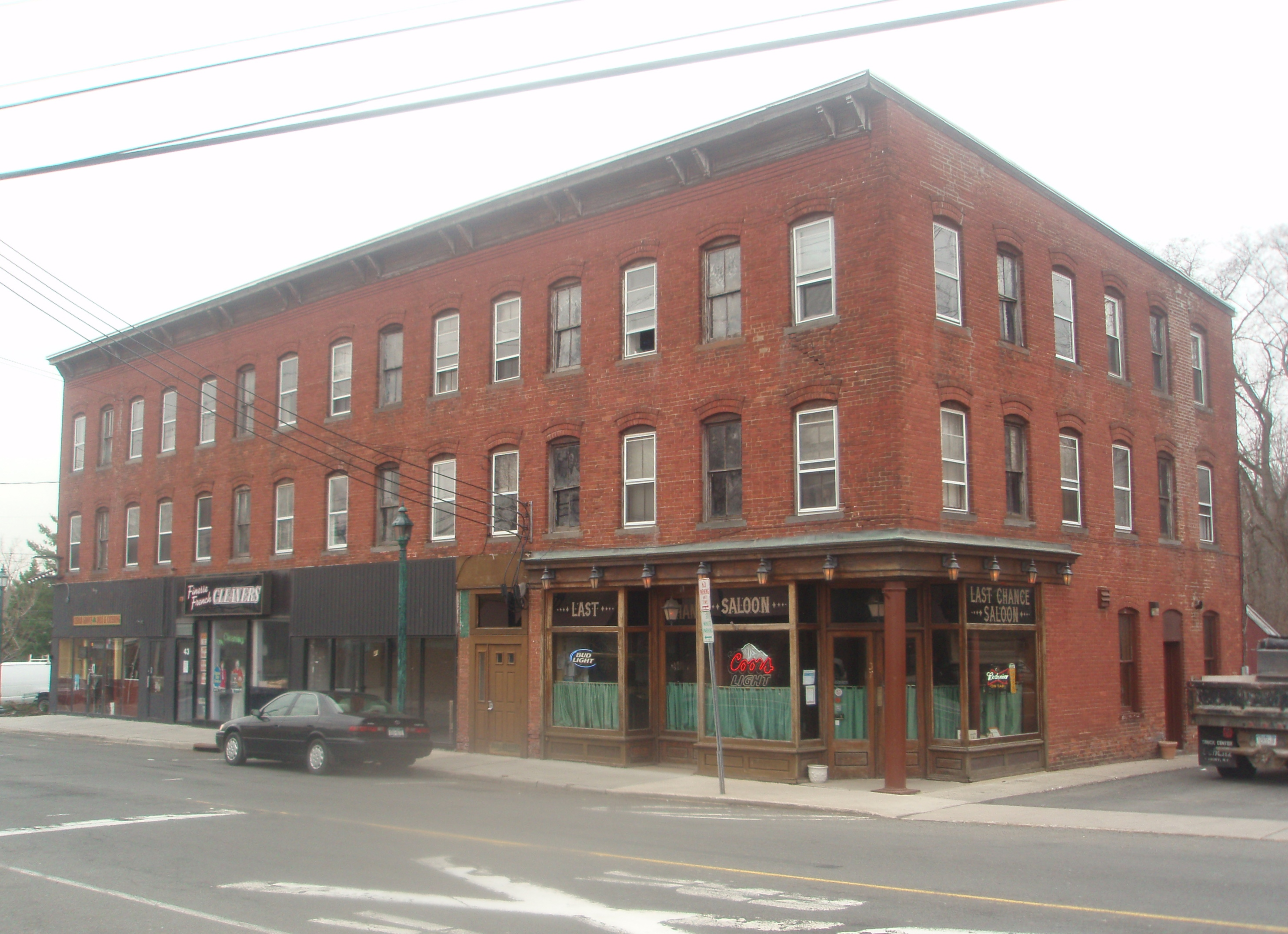 Historic Building In Downtown Congers, NY